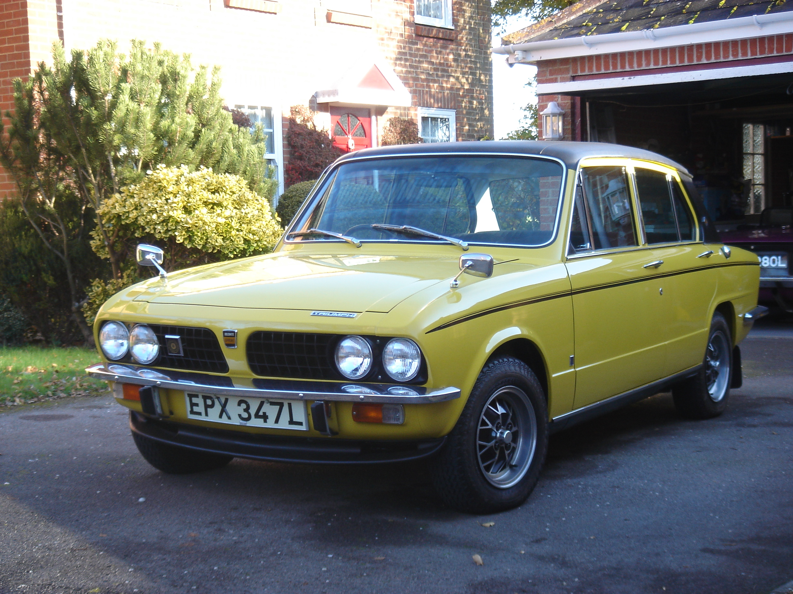 One of the first (aprox) 2000 Sprints, which were all black trim over mimosa yellow, with larger overrider rubbers, no strakes on doors, no head rests, and two seams in the vinyl roof. This one has after market wing mirrors.